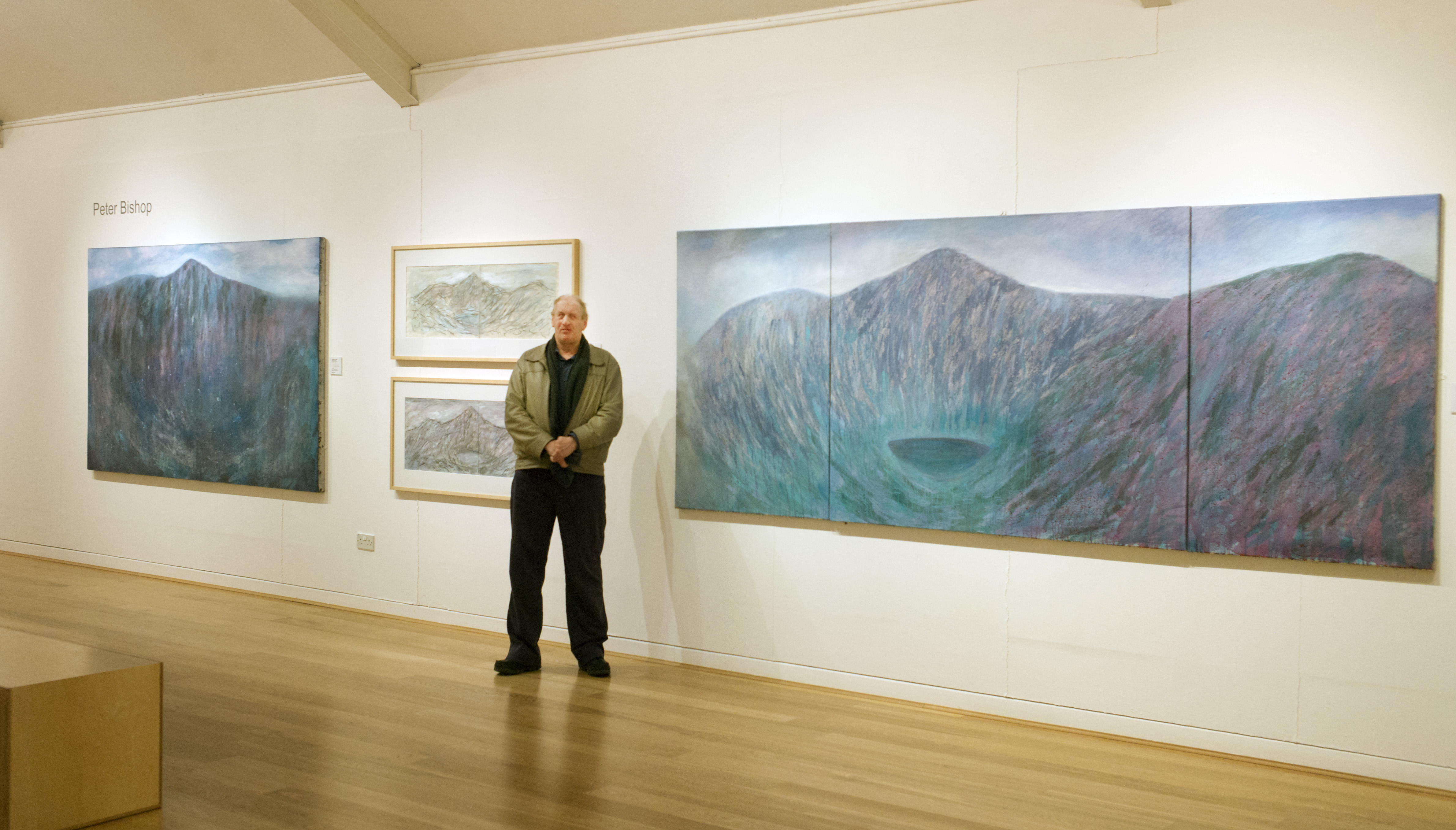 The artist with Cader triptych, Oriel Ynys Mon, 2017 Photo Credit: Pete Davis (by permission)